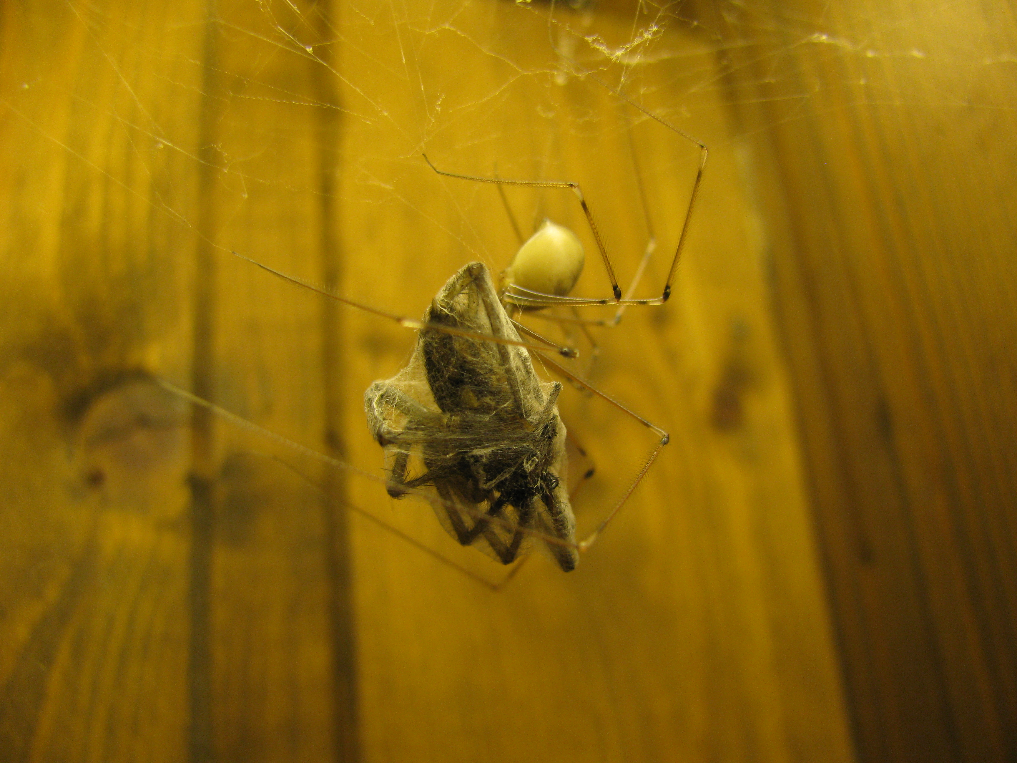 A pholcus phalangioides with a tegenaria atrica